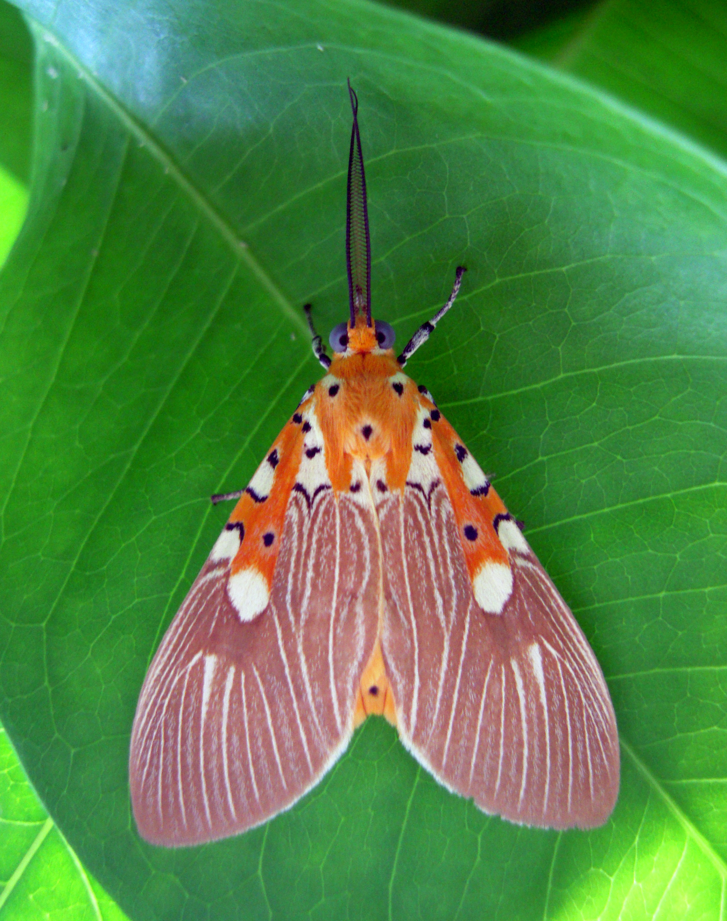 Aganais ficus, it is a moth of the Noctuidae family. This one was found at Tirunelveli, India.